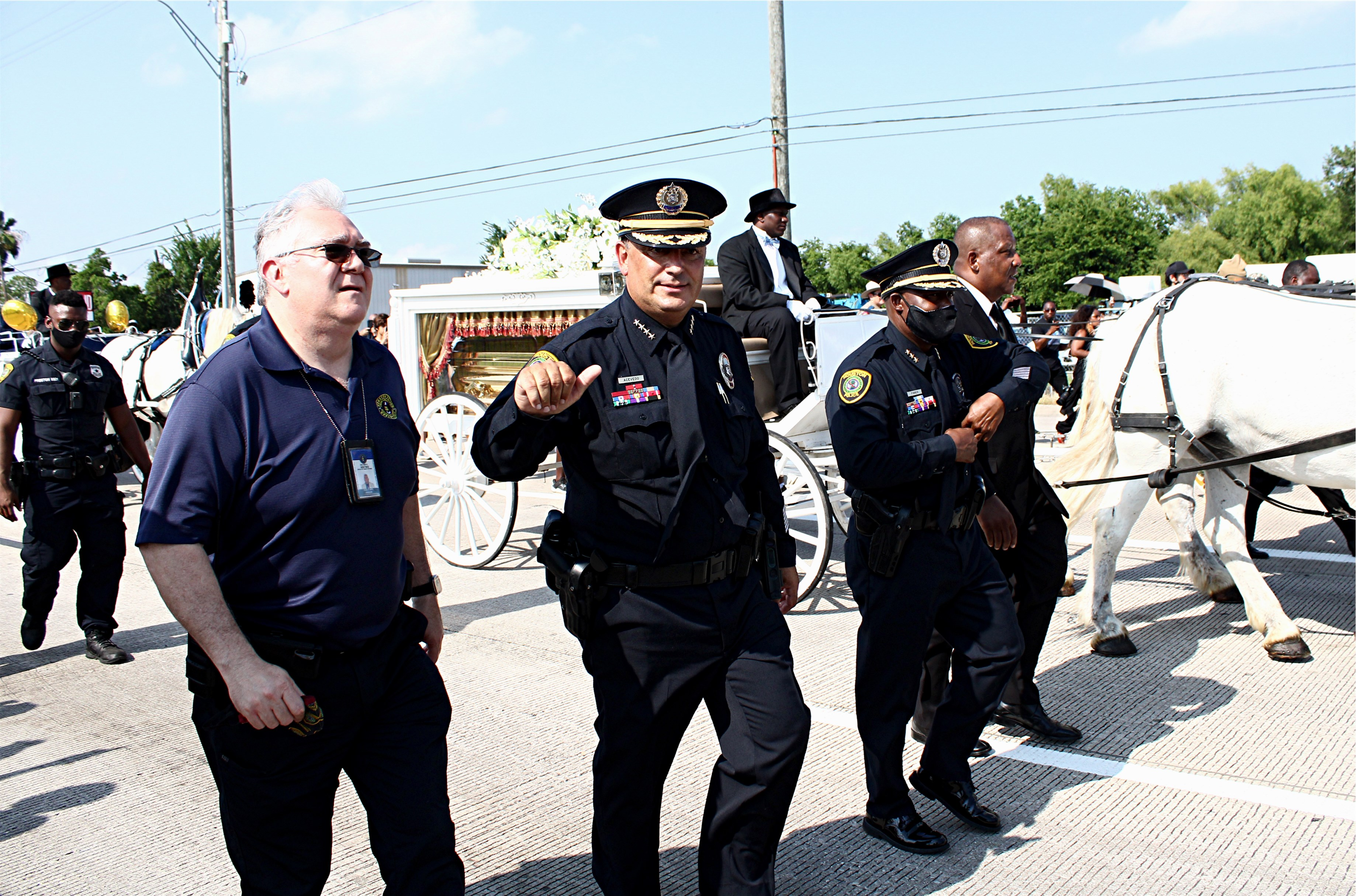 The Last Mile Of The Way.. Funeral procession with a horse-drawn carriage of George Floyd’s body down Cullen Blvd to the Houston Memorial Gardens Cemetery. Pearland, TX 6-9-20 Houston Police Chief Art Acevedo